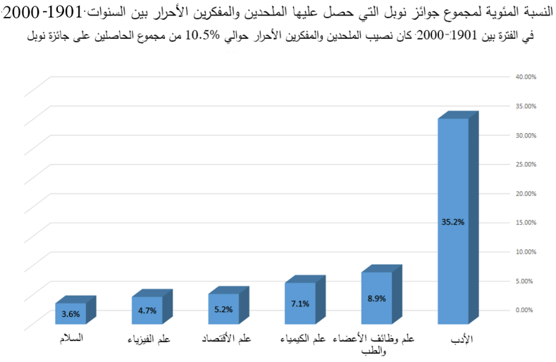 Distribution of Atheists, agnostics, and Freethinkers in Nobel Prizes between 1901-2000, data took from Baruch A. Shalev, 100 Years of Nobel Prizes (2003),Atlantic Publishers & Distributors, p.59 and p.57: "Atheists, agnostics, and freethinkers comprise 10.5% of total Nobel Prize winners; but in the category of Literature, these preferences rise sharply to about 35%."